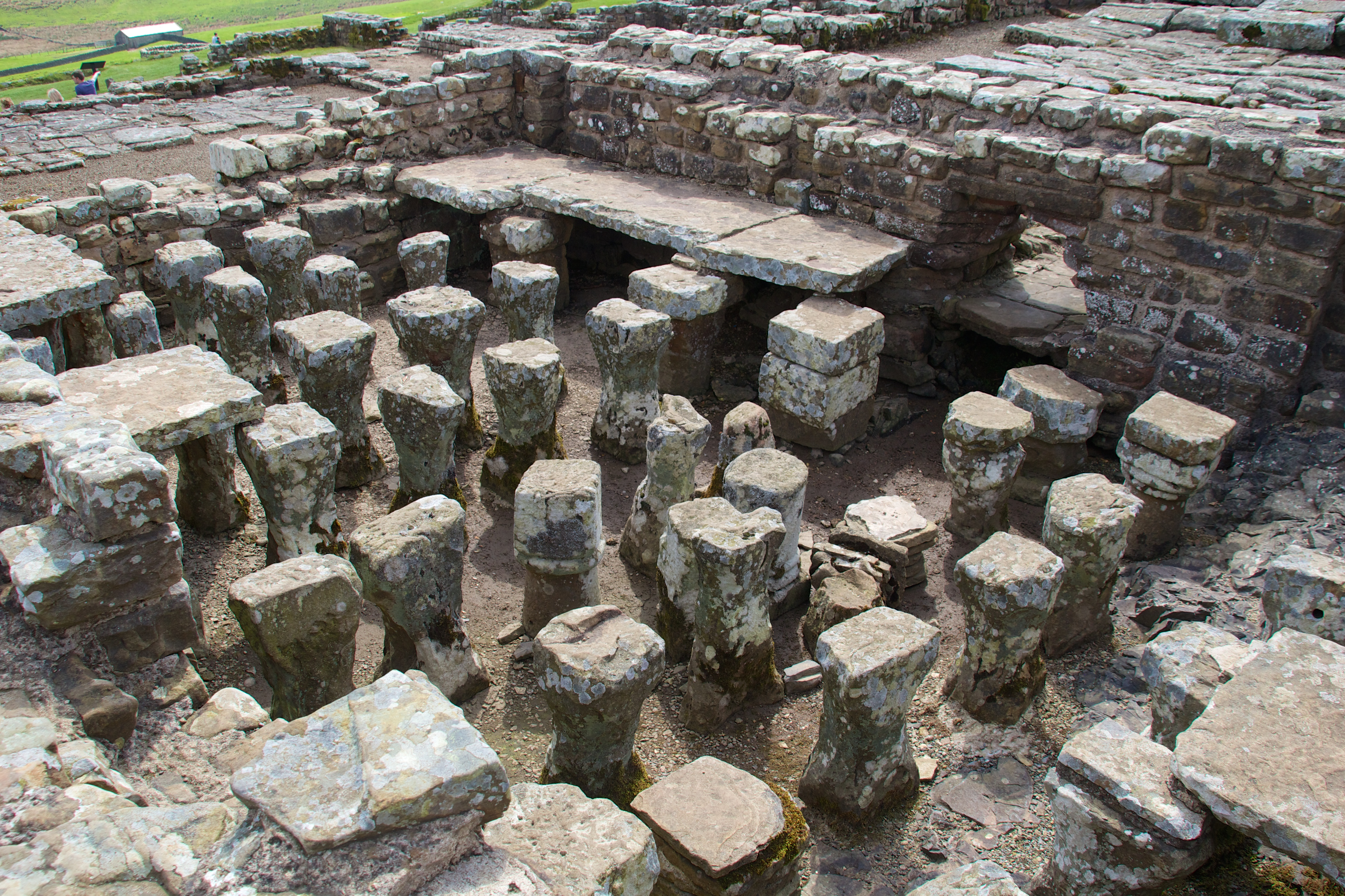 Praetoritum (Commandant's House) at Housesteads Roman Fort on Hadrian's Wall.